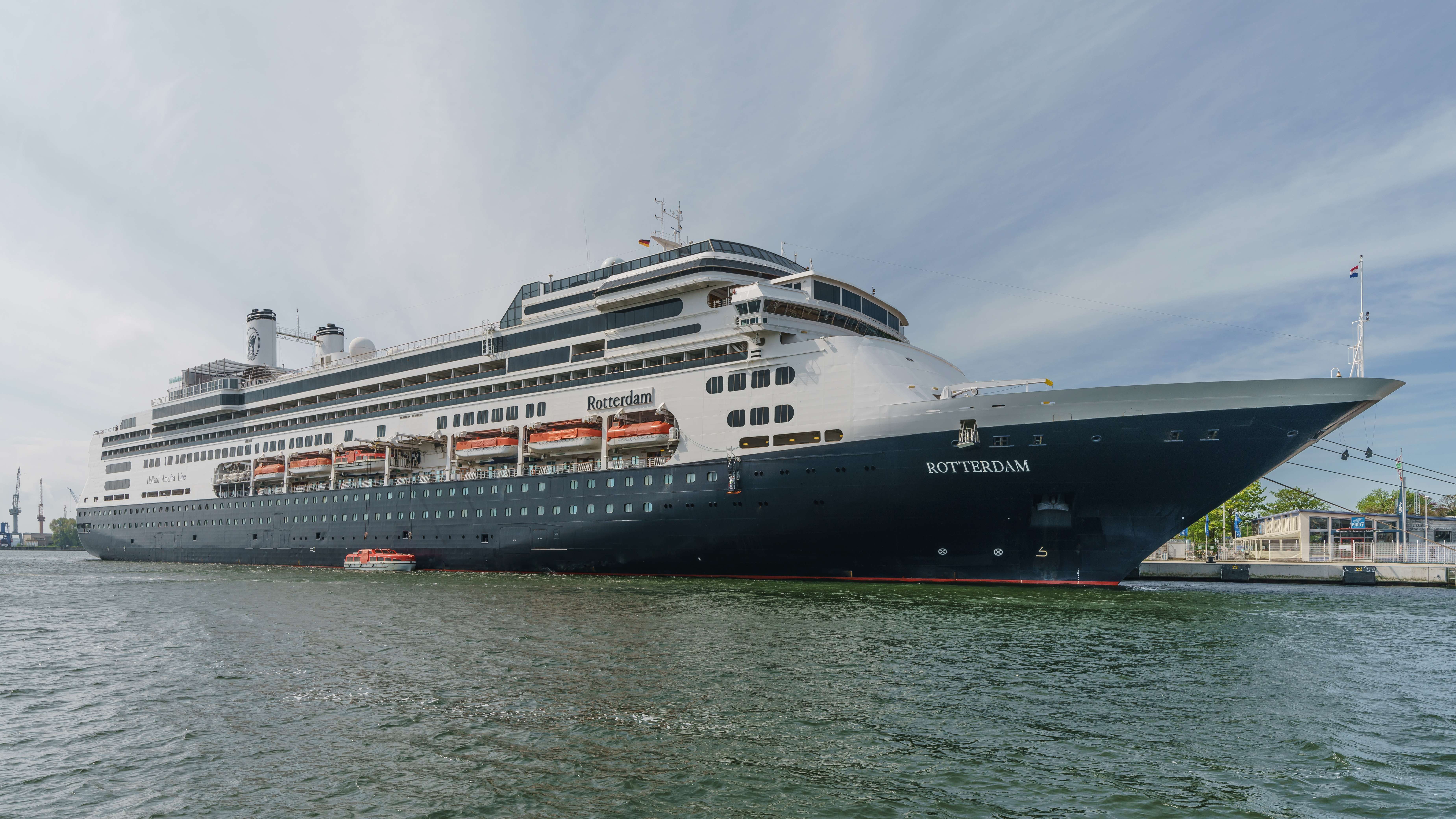 Cruise ship Rotterdam in the port of Warnemünde, Rostock, Germany